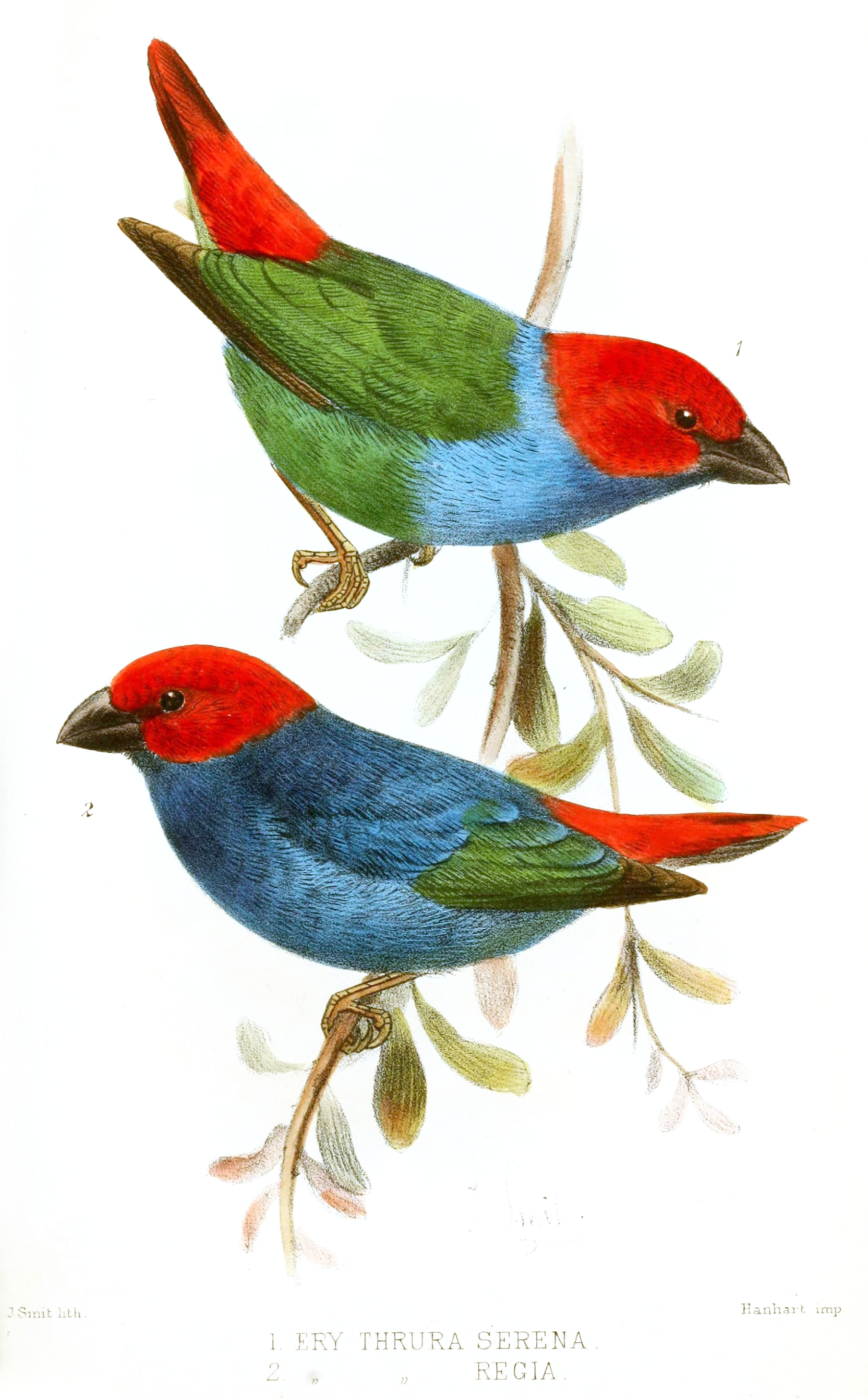 1. « Erythrospiza serena » = Erythrura regia serena (Subspecies of Royal Parrotfinch) 2. « Erythrospiza regia » = Erythrura regia regia (Subspecies of Royal Parrotfinch)